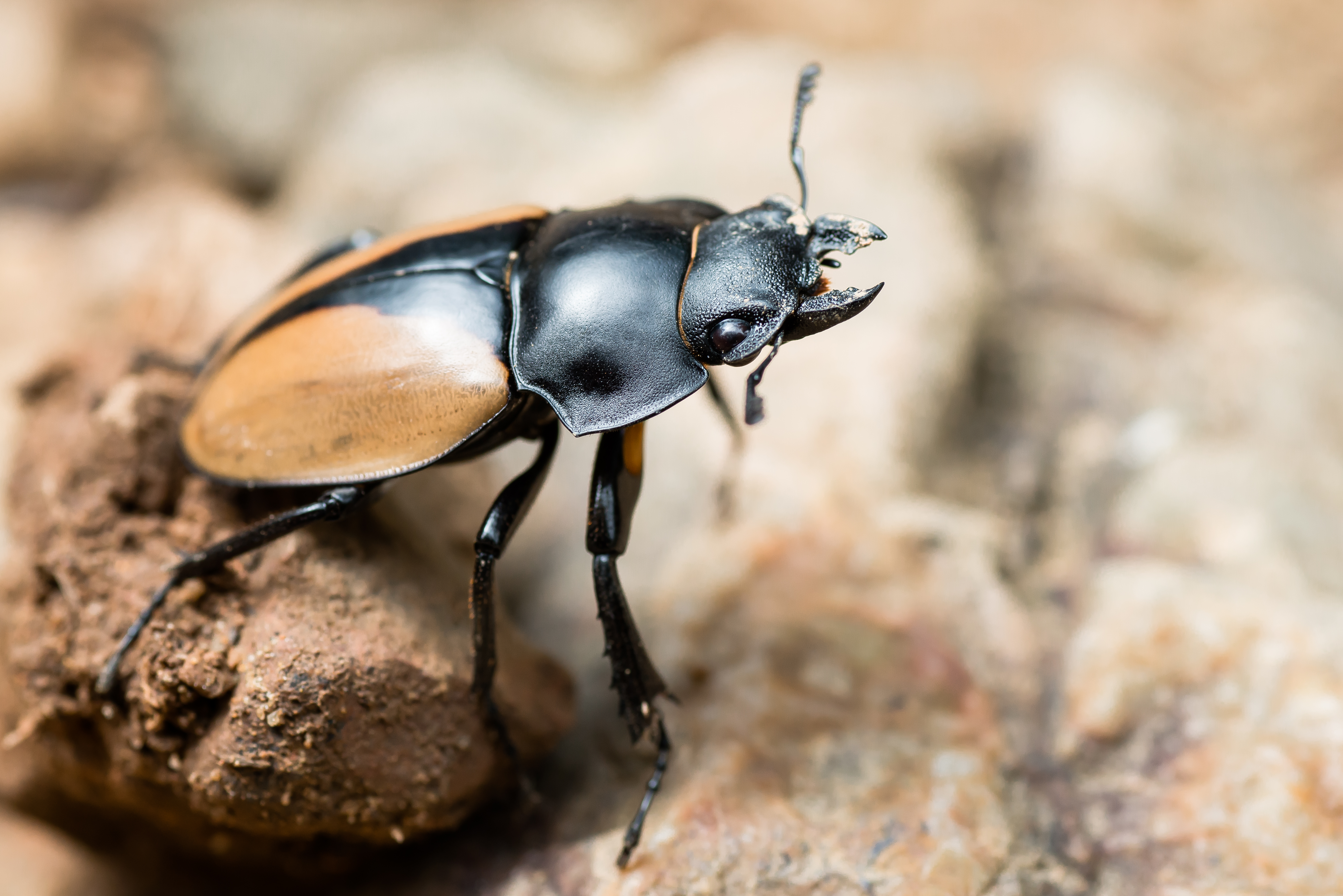 Neolucanus parryi - Phoneon Thung, Kaeng Krachan National Park, Thailand - November 2013.